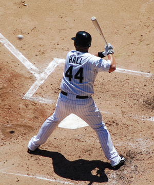 Toby Hall is ready as the ball nears the plate.